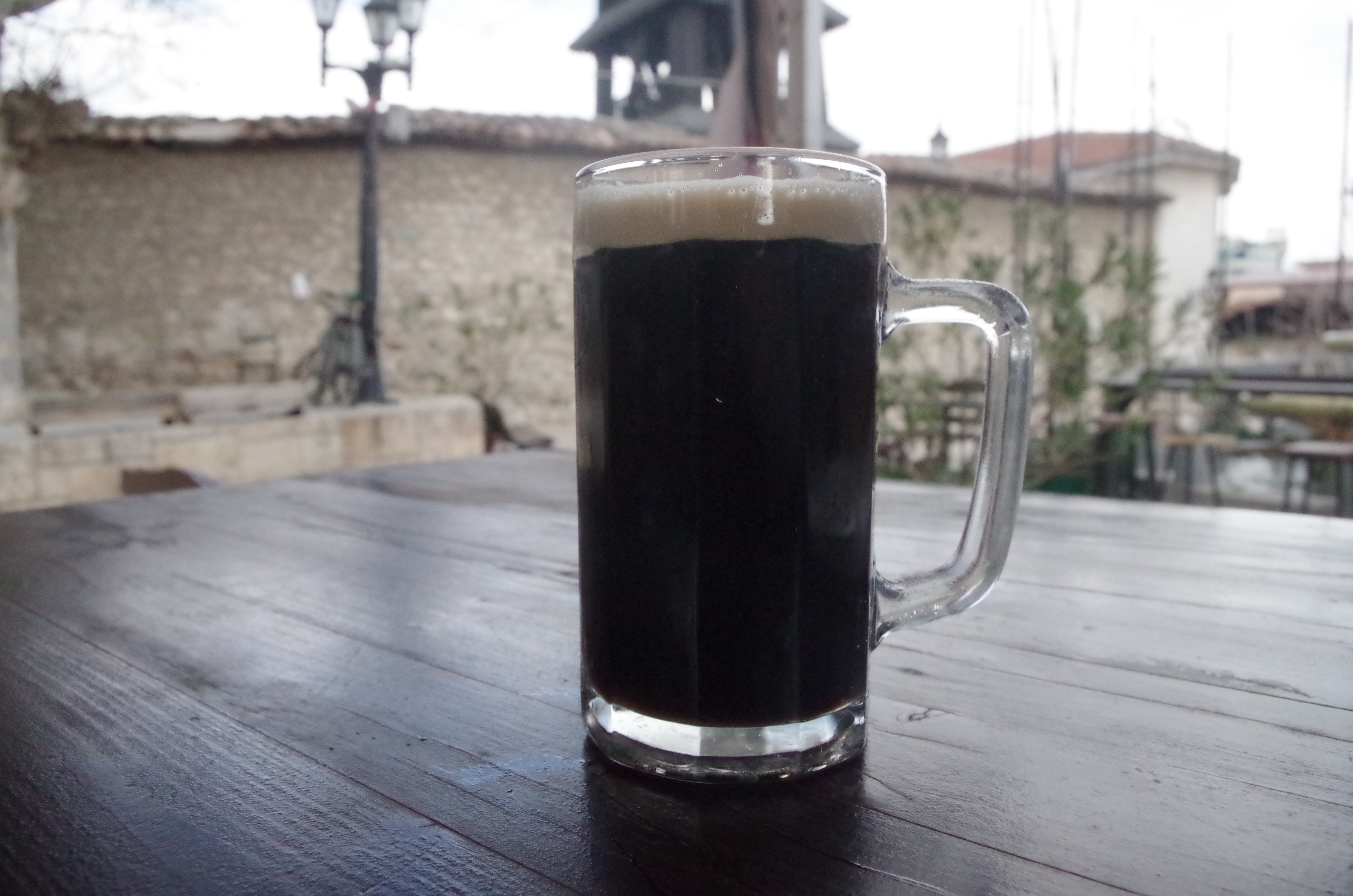 Craft beers and brewery "Temov" in Skopje, Macedonia